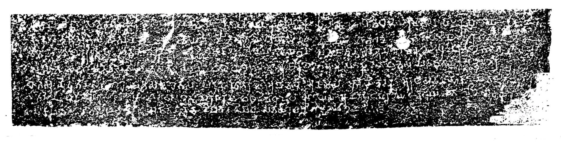 Nasik inscription No5, Cave No3